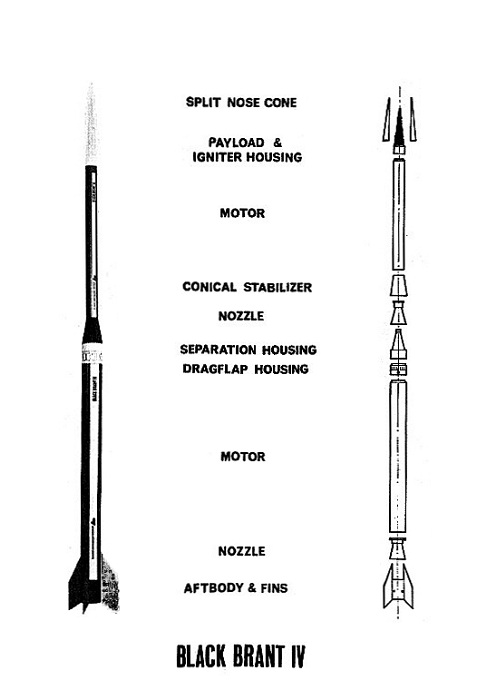 This Black Brant IV rocket was the model used in the South Atlantic Anomaly Probe (SAAP) project.